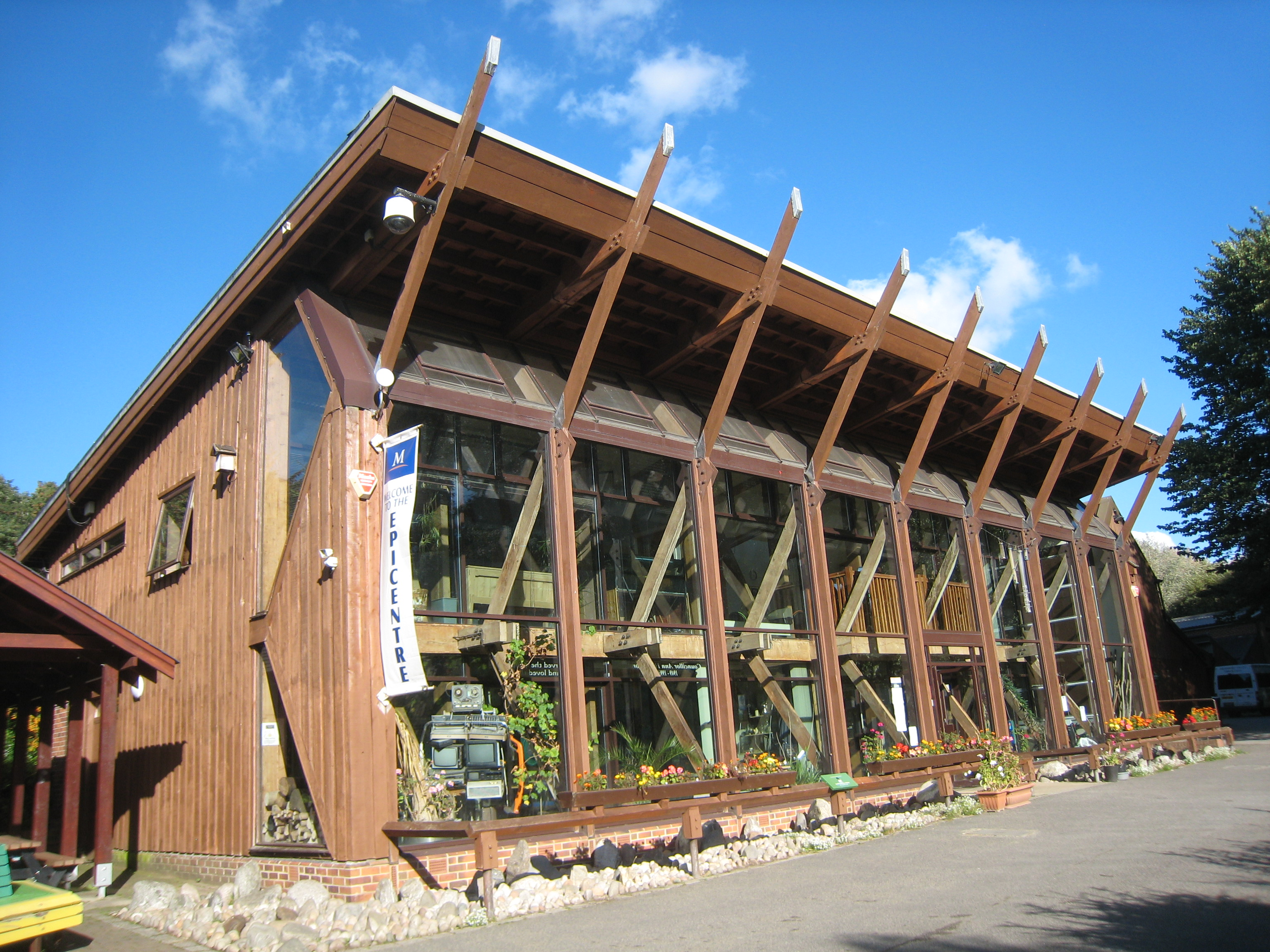 The Epicentre, Meanwood Valley Urban Farm. Main building for administration, shop and meeting rooms. Walter Segal sel-build timber construction, low energy, environmentally friendly. It has a turf roof.